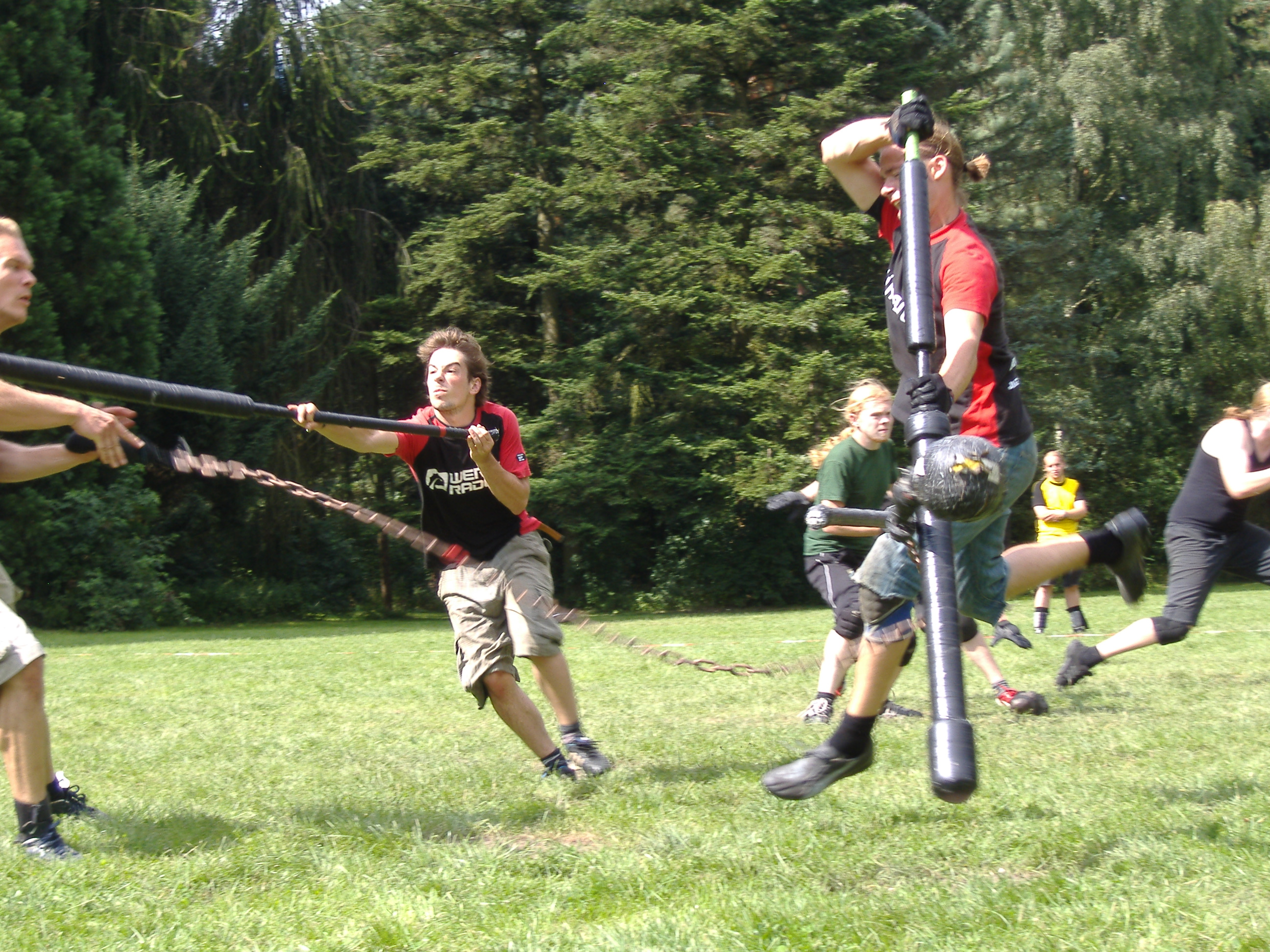 Jugger-Tournament Hamburg 2009